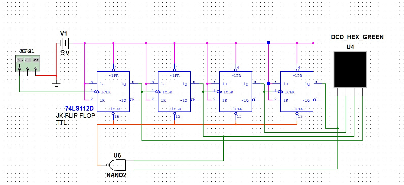 Decade Counter circuit designed in MultiSim 11.0.Counts in binary from 0000 to 1001 and displays equivalent decimal in a LCD display This file has been released explicitly into the public domain by its author, using the Creative Commons Public Domain Dedication This file may be used for any purpose including unrestricted redistribution, commercial use, and modification. Note: Creative Commons has retired this legal tool and does not recommend that it be applied to works. It is recommended you use Cc-zero instead. This legal tool may not be effective or applicable in non-US jurisdictions.Creative Commons Public Domain DedicationPublic Domain